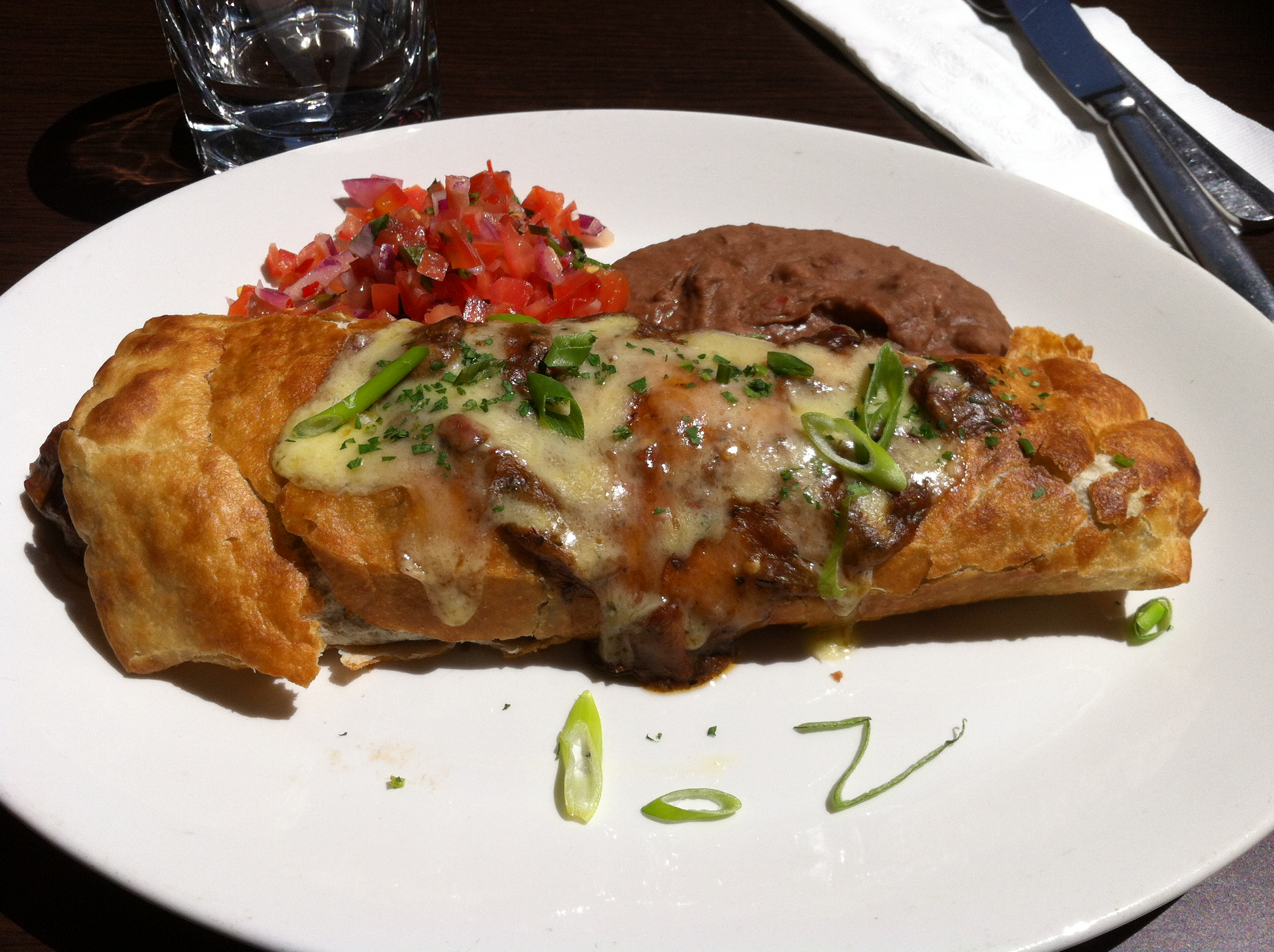 Chimichanga from Amigos in Melbourne